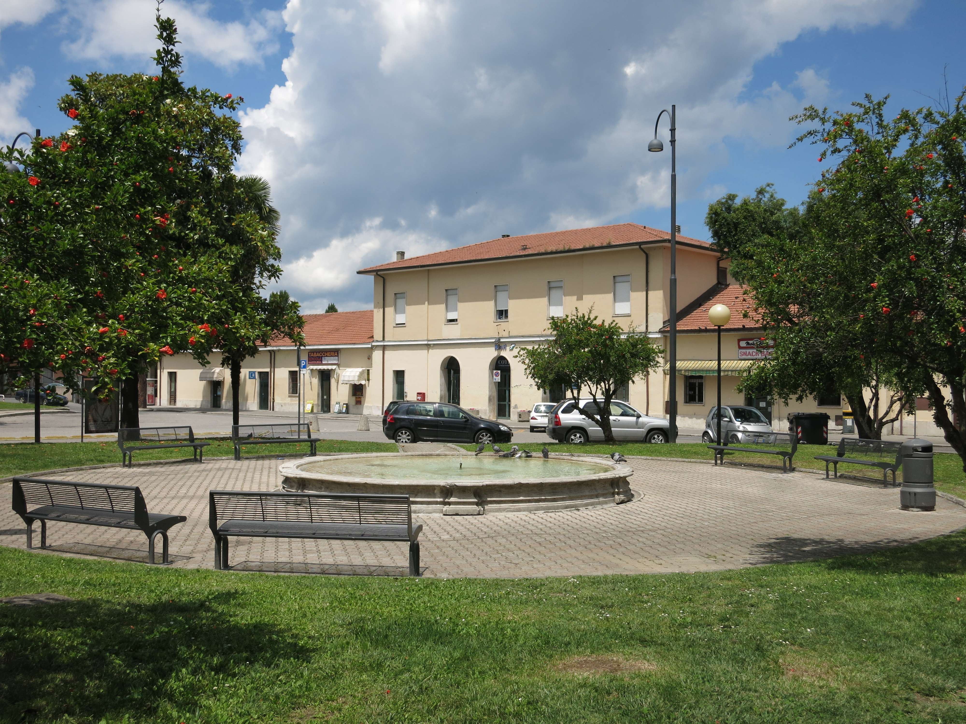 Railway station of Rieti (Lazio, Italy) on the Terni-L'Aquila-Sulmona line. View of the passenger building from the outside, with a fountain and some benches.